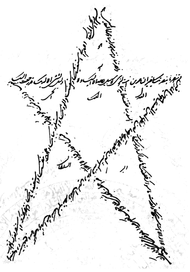 Image of a pentagram tablet made by Siyyid Ali-Muhammad-i-Shirazi, also known as the Báb.